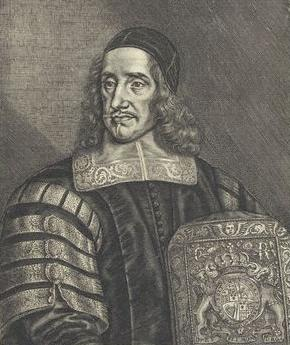 Portrait of Sir Orlando Bridgeman, 1st Baronet, of Great Lever (1606-1674)